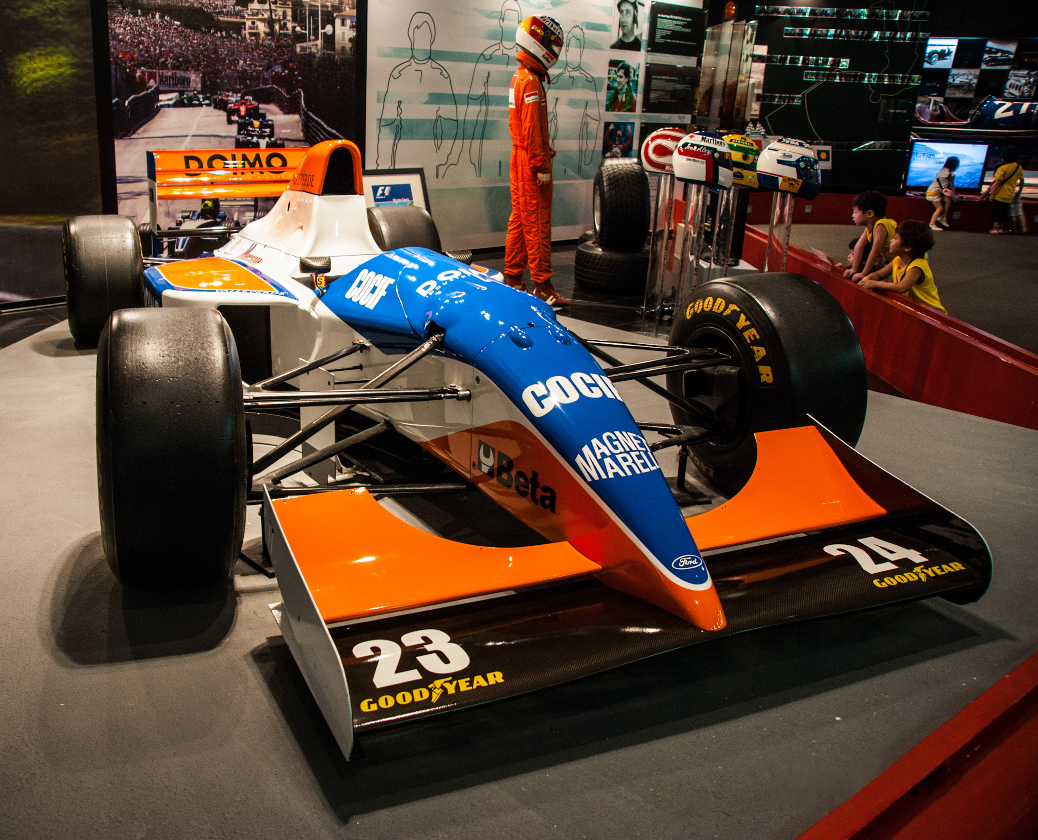 The Minardi M193B in exposition in South Korea